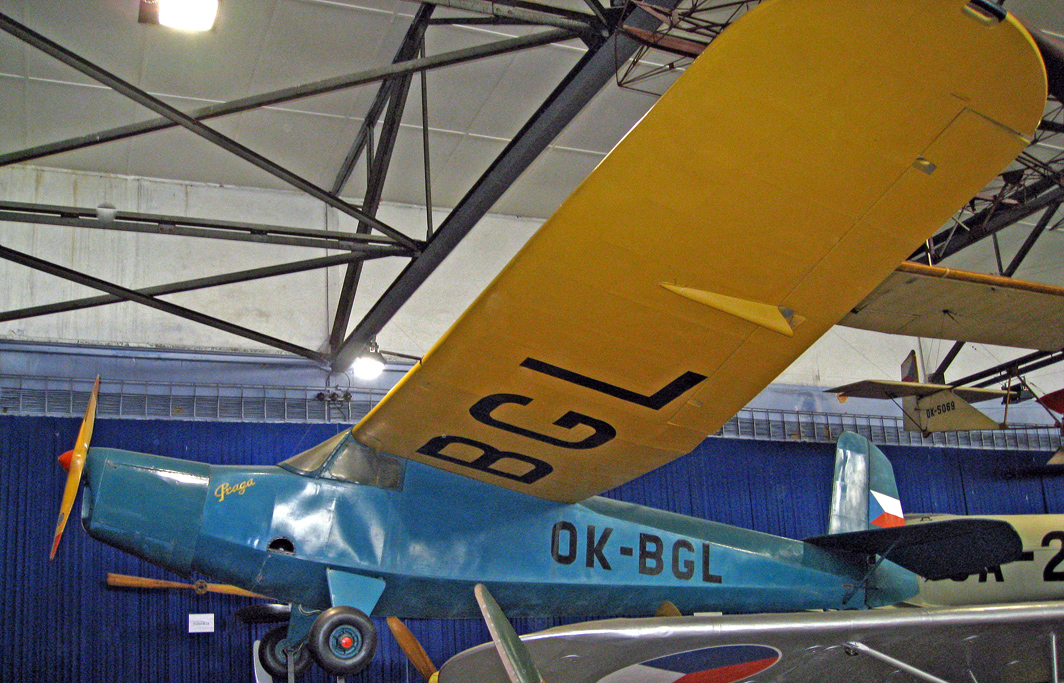 Paga E.114M Air Baby in the Kbely Aviation Museum, Prague